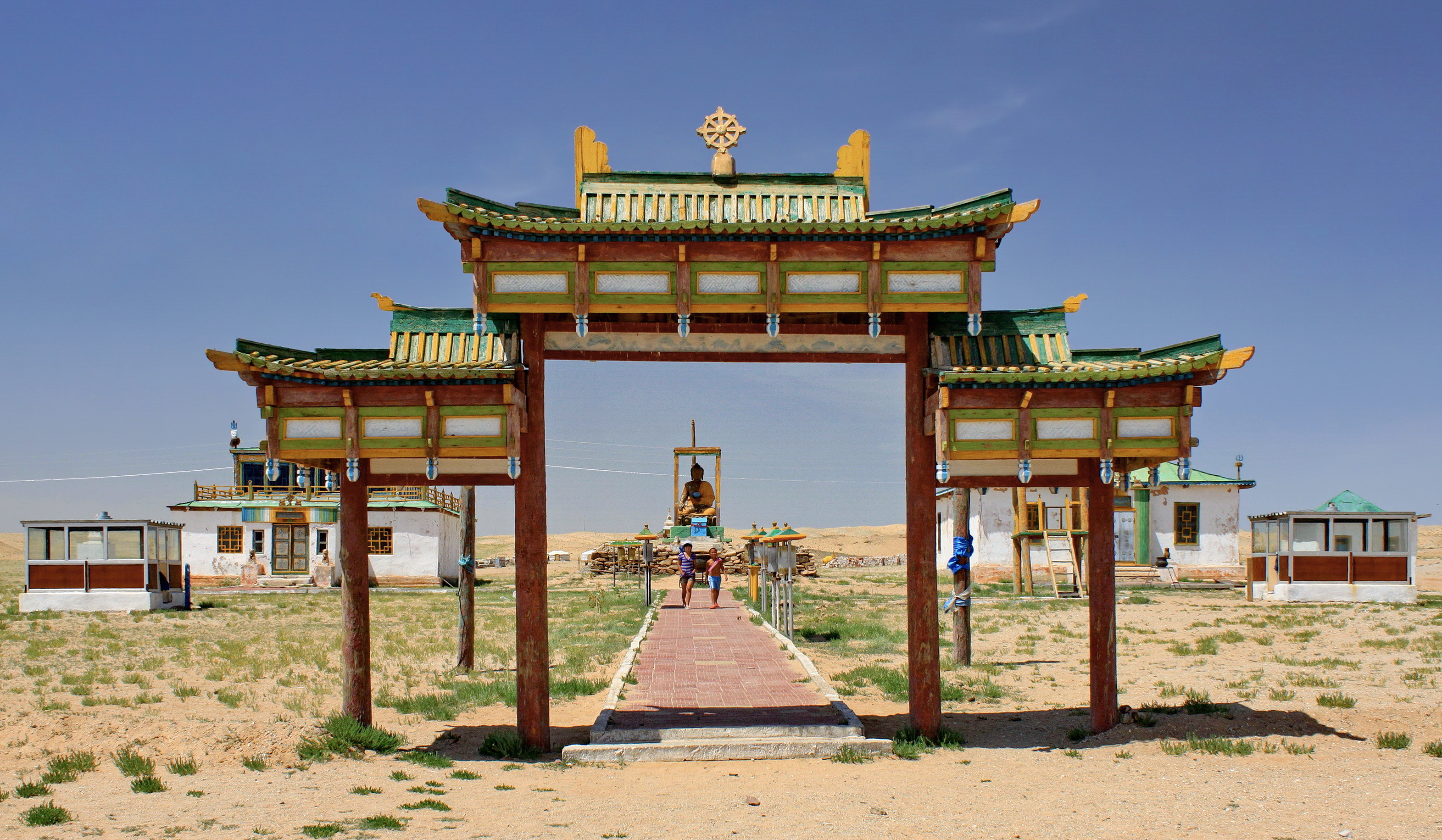 The entrance gate to the Khamar Monastery. Gobi Desert, Dornogovi Province, Mongolia.